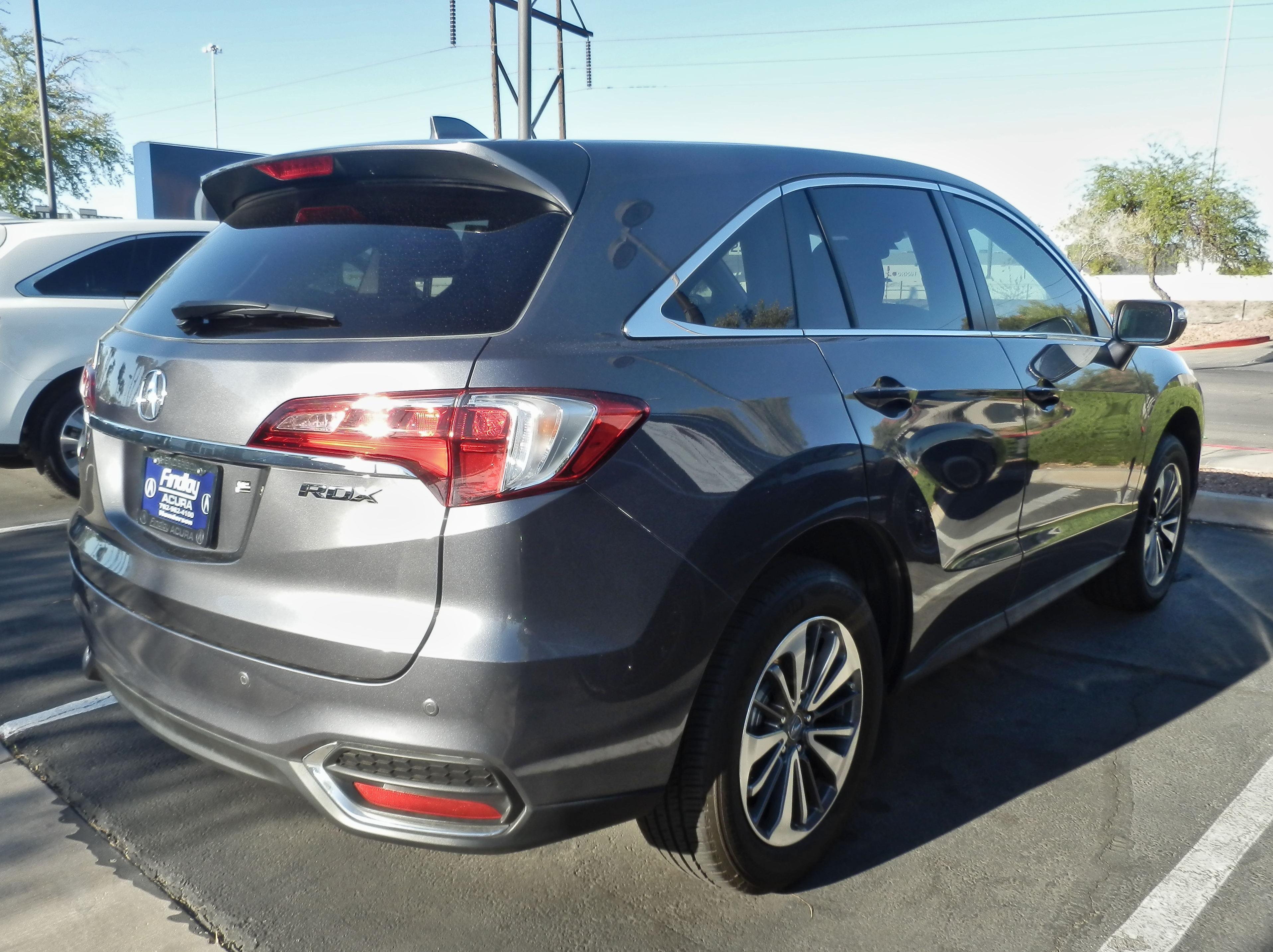 Acura MDX in Las Vegas